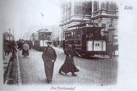 Trams in Łódź